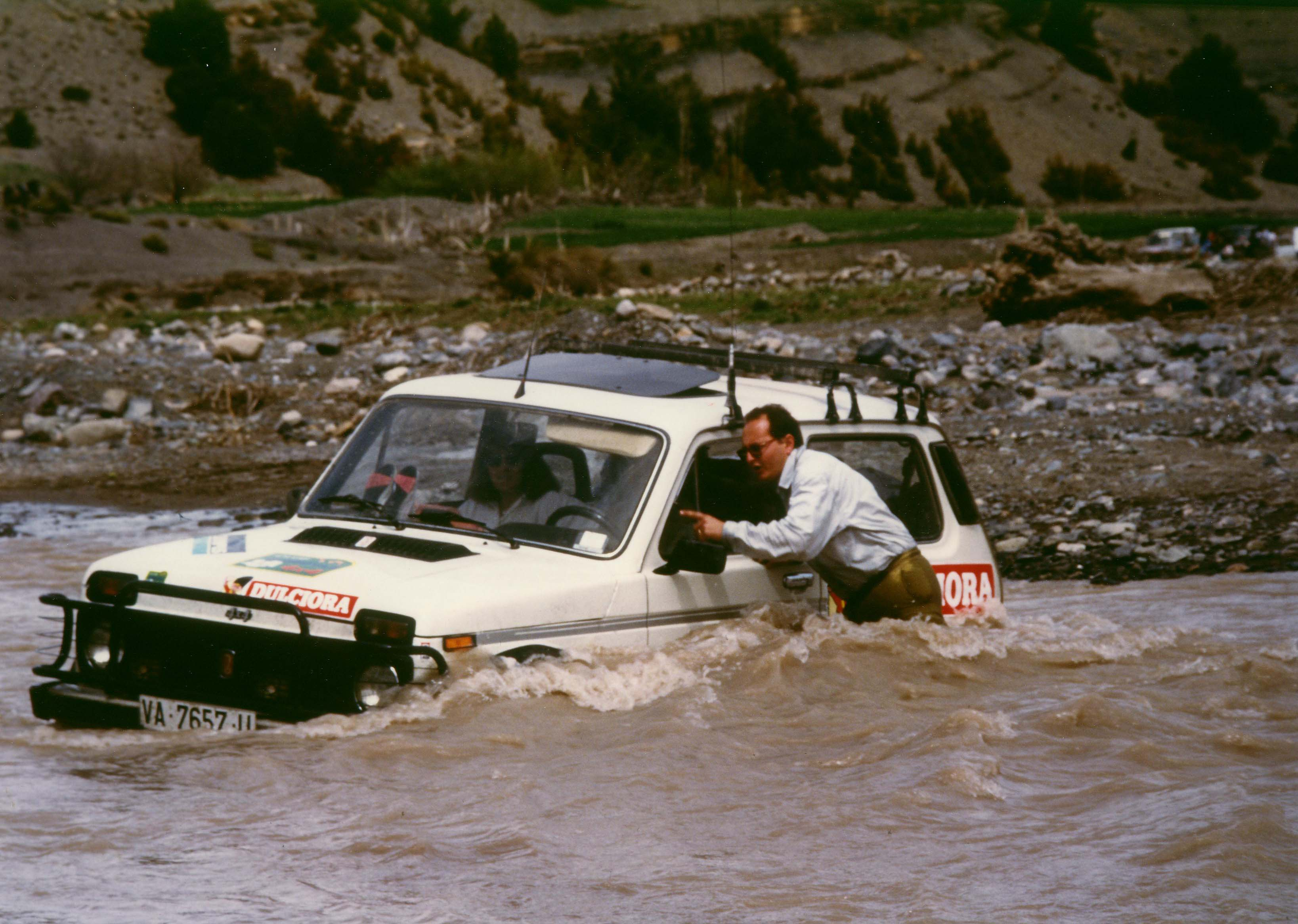 photo